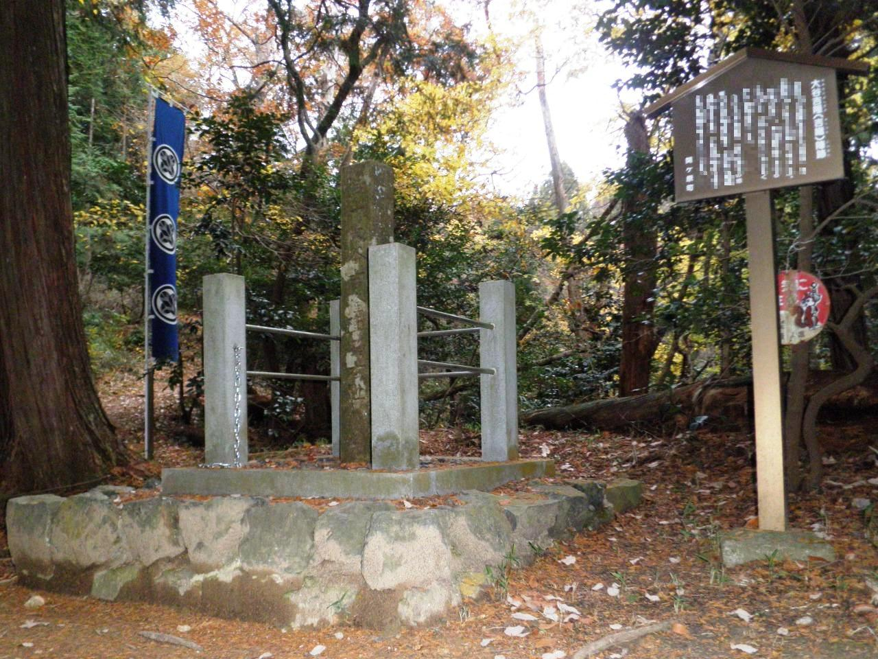 Site of Ōtani Yoshitsugu's position in the Battle of Sekigahara.